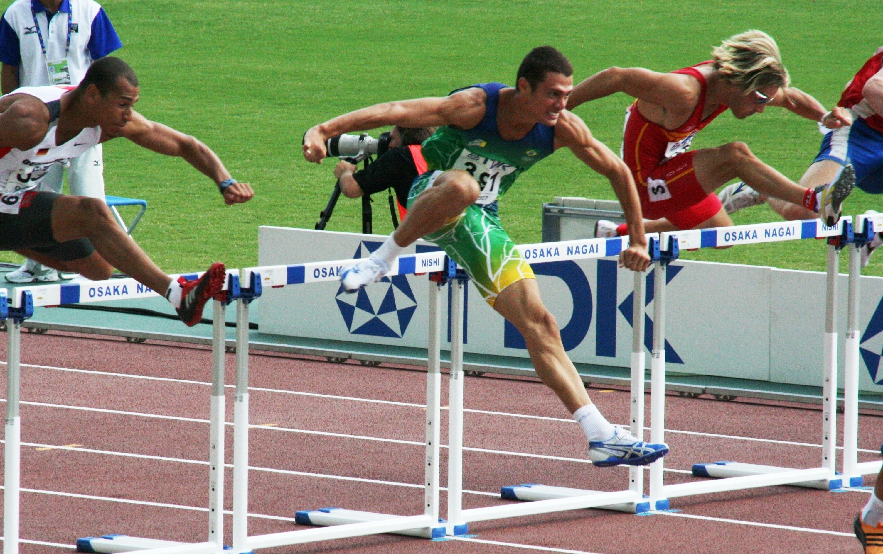 World Athletics Championships 2007 in Osaka - Scene from a 110 metres hurdles heat of the decathlon competition: Norman Müller, Carlos Eduardo Chinin, Agustín Félix